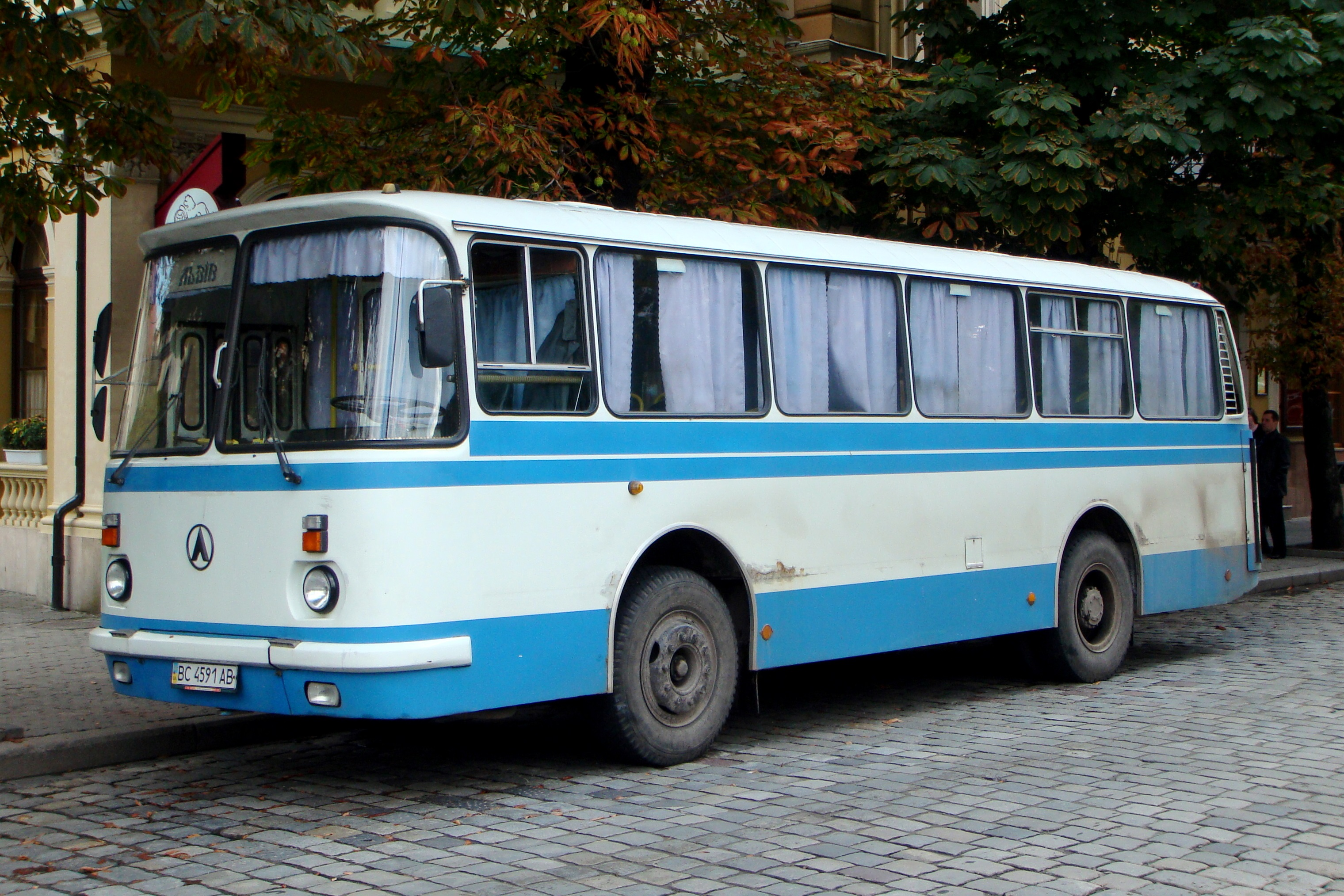 LAZ 695N bus in Lviv, Ukraine.